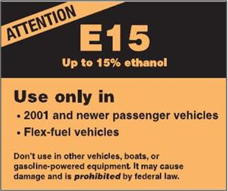 EPA's final E15 label to be displayed in all E15 fuel dispensers in the U.S. The E15 label informs consumers about what vehicles can, and what vehicles and equipment cannot, use E15.